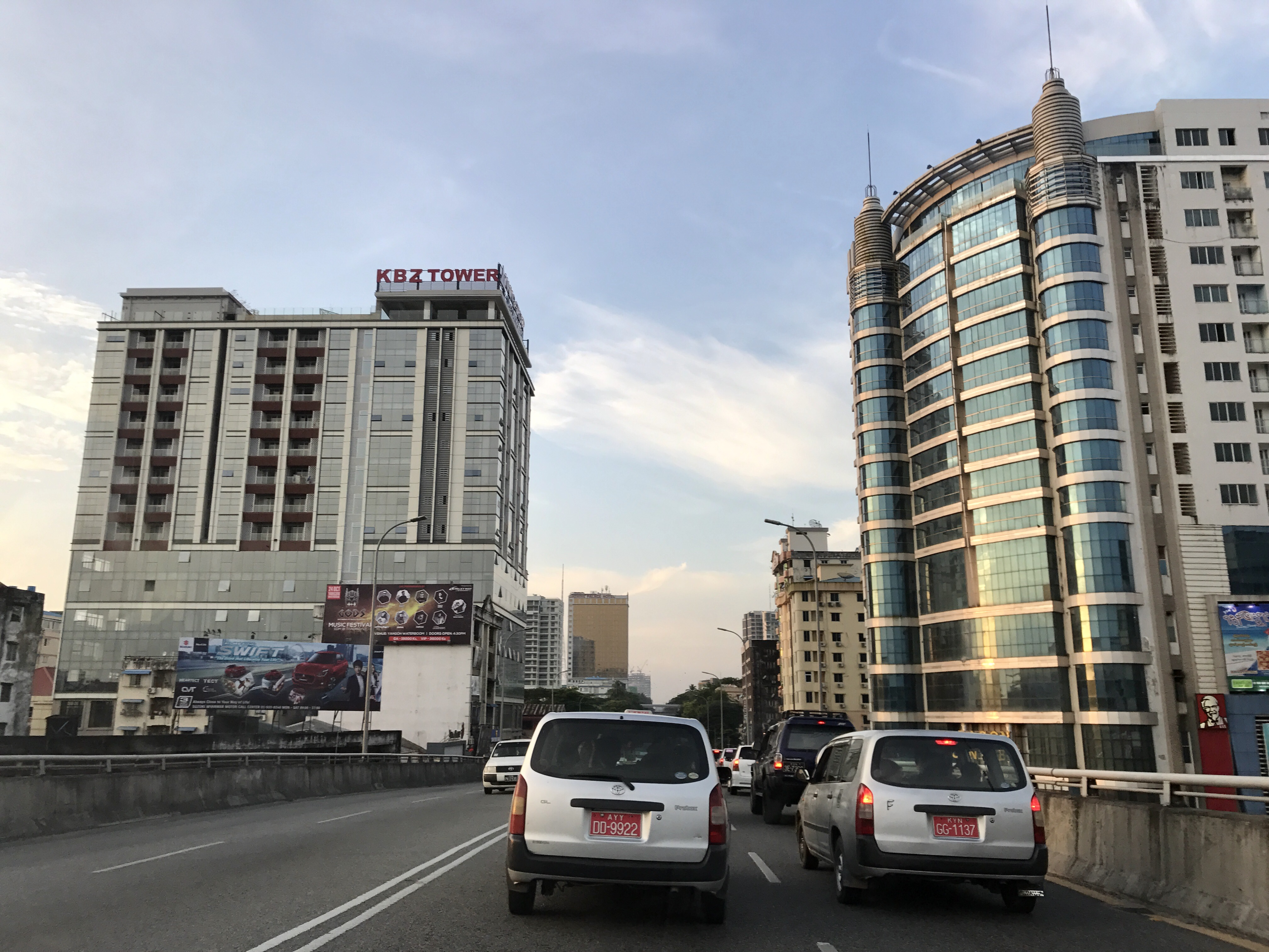 Sanchaung